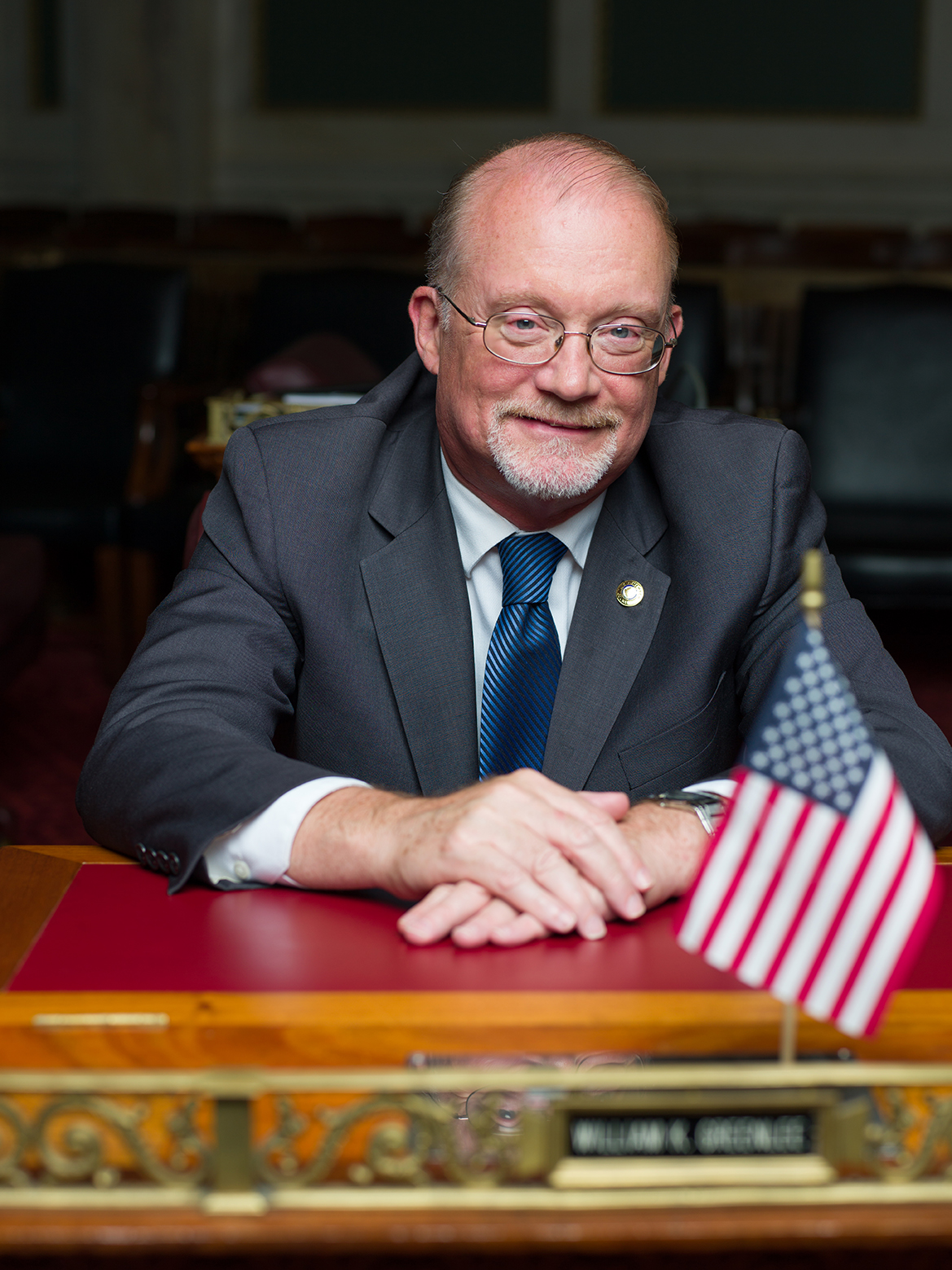 Councilman Greenlee at his desk in City Council chambers